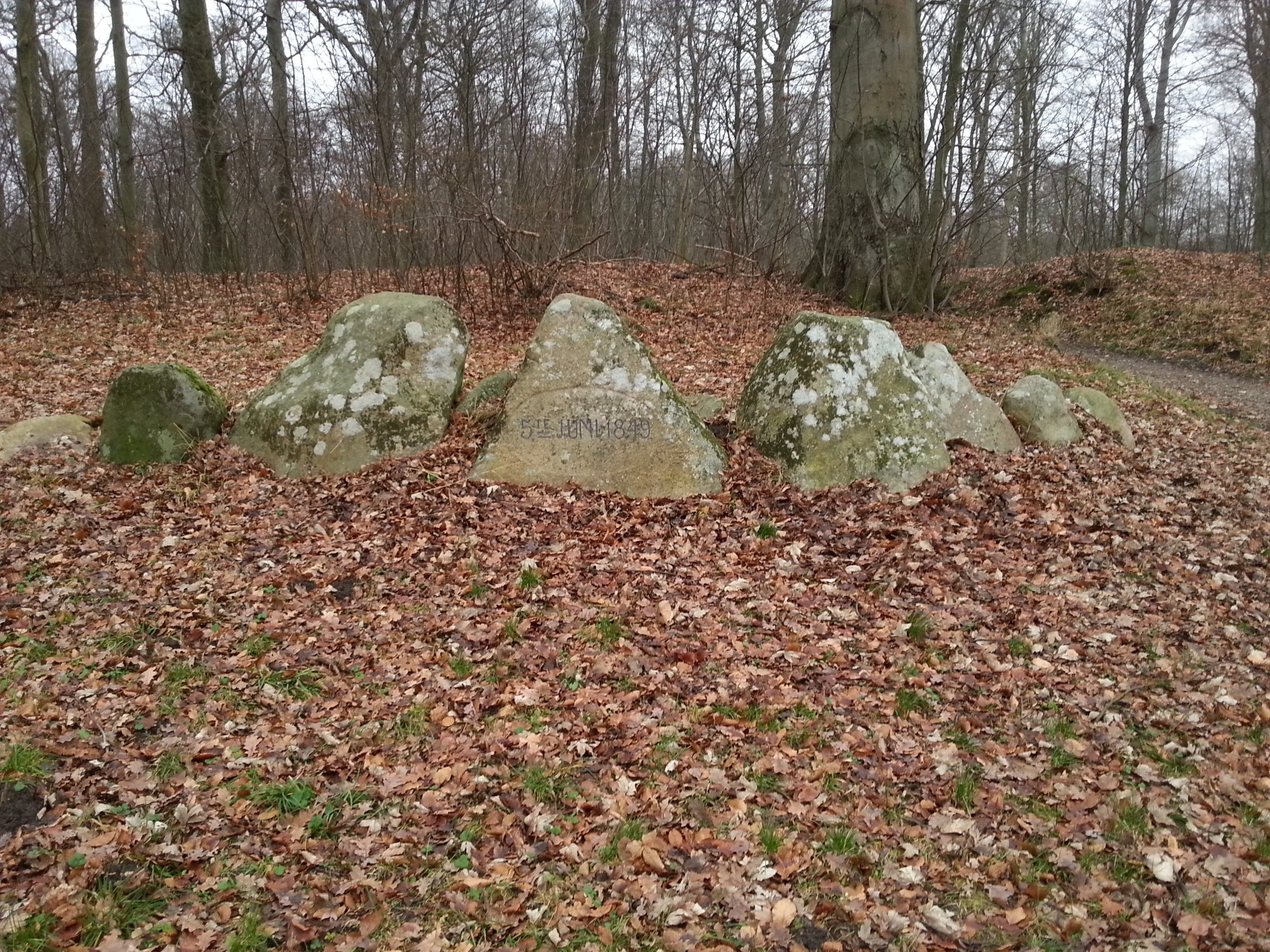 Constitution monument 4